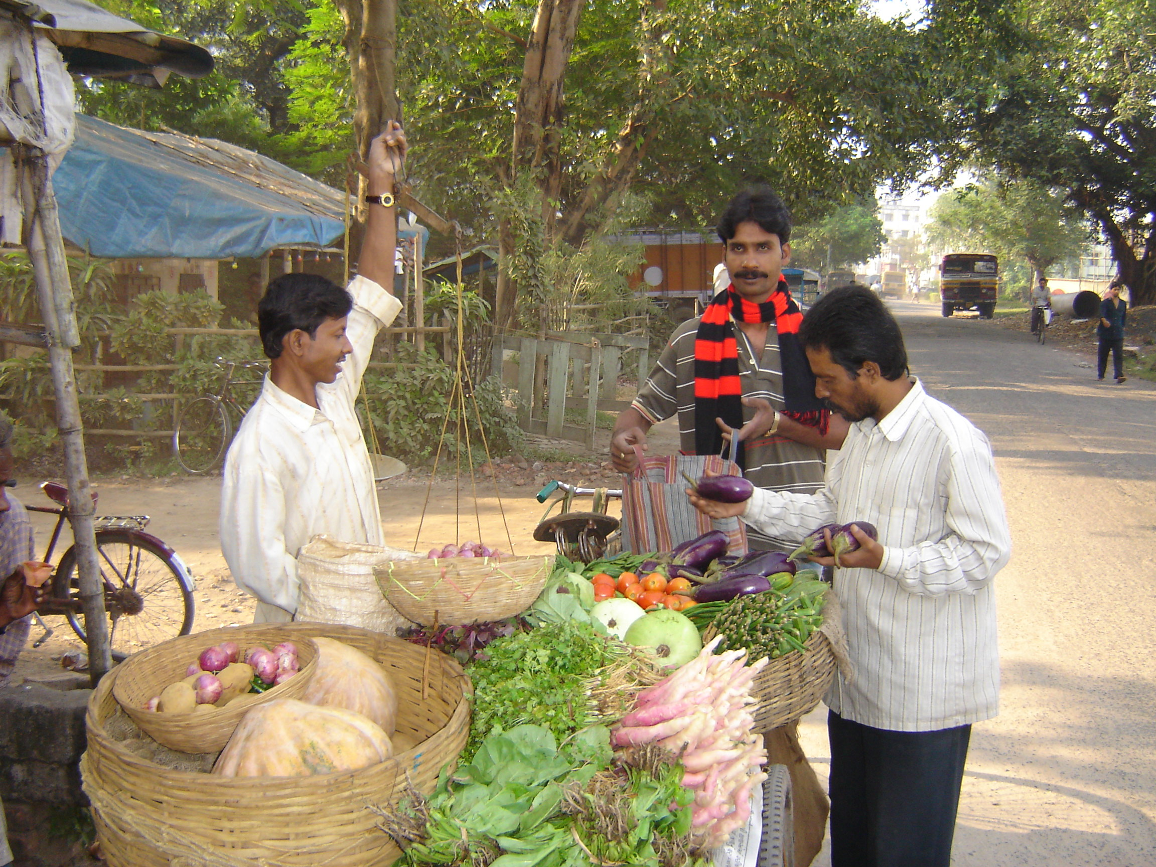 Subrata - a youth came from Medinipur, he sells vegetables at every morning at Padmapukur Plant Road area, Howrah.